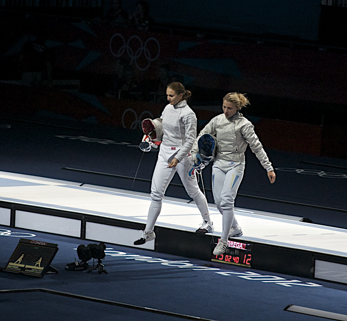 Russia's Sofiya Velikaya (left) defeats 15–12 Olha Kharlan of Ukraine (right) in the semifinals of the women's sabre event at the 2012 Olympic Games.